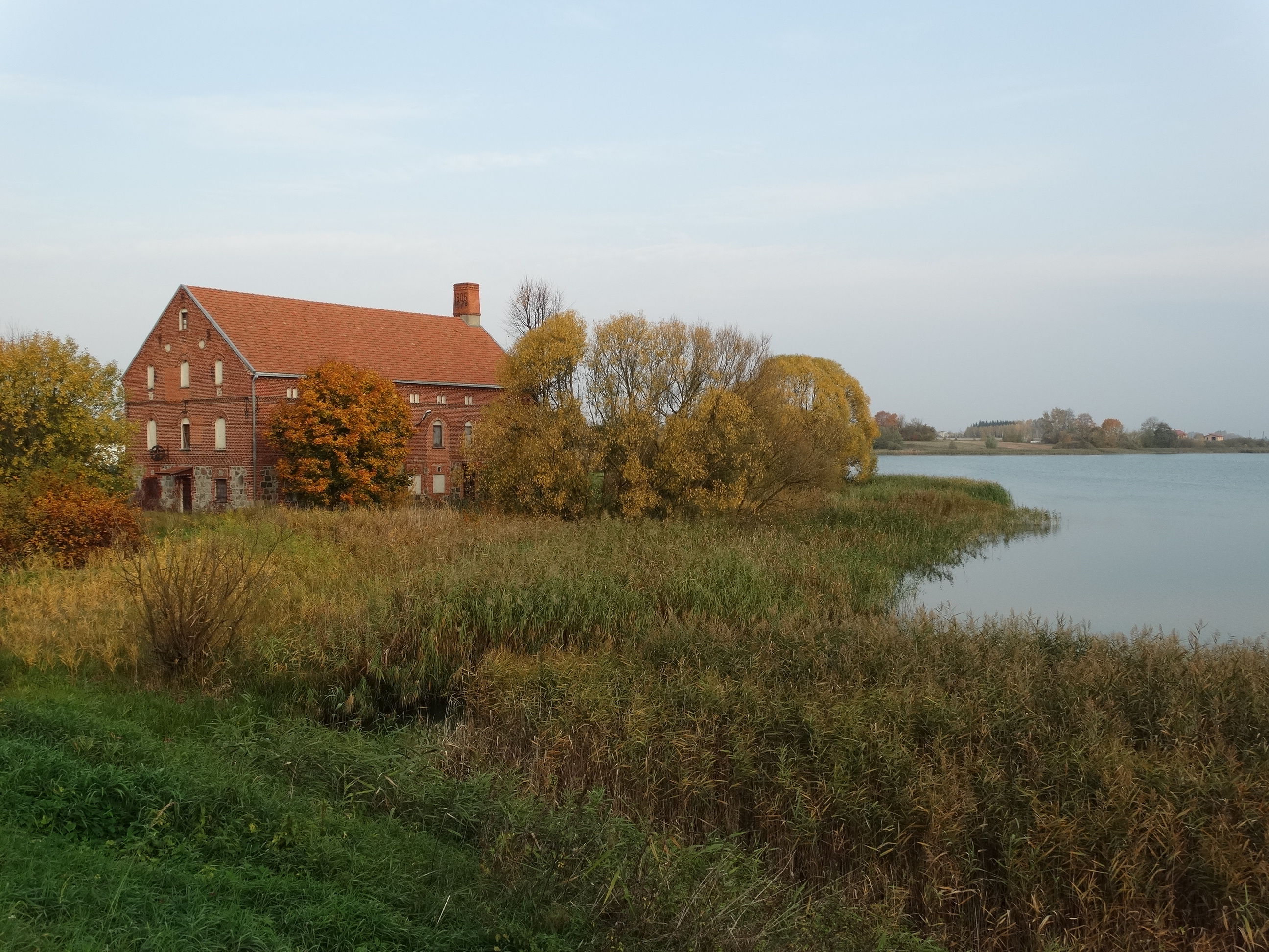 Alvitas, Vilkaviškis District, Lithuania